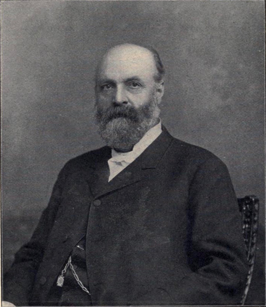 The parties and the men, or, Political issues of 1896 a history of our great parties from the beginning of the government to the present year. A record of bygone conventions and the various platforms, including the national conventions of the present day : the biographies and portraits of eminent political leaders, and the lives of the candidates for president and vice-president of the United States : the issues of the day impartially reviewed